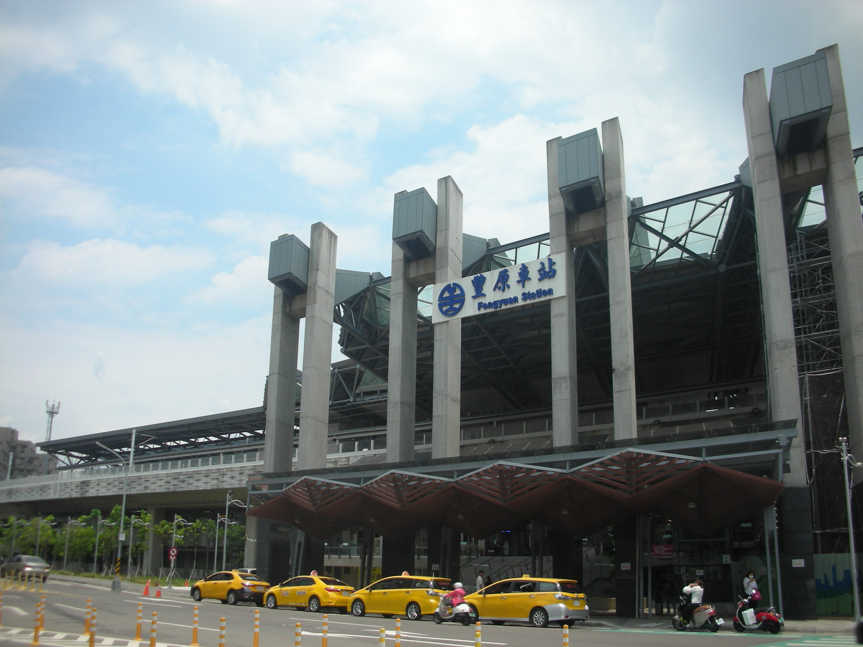 TRA Fengyuan Station West Entrance.